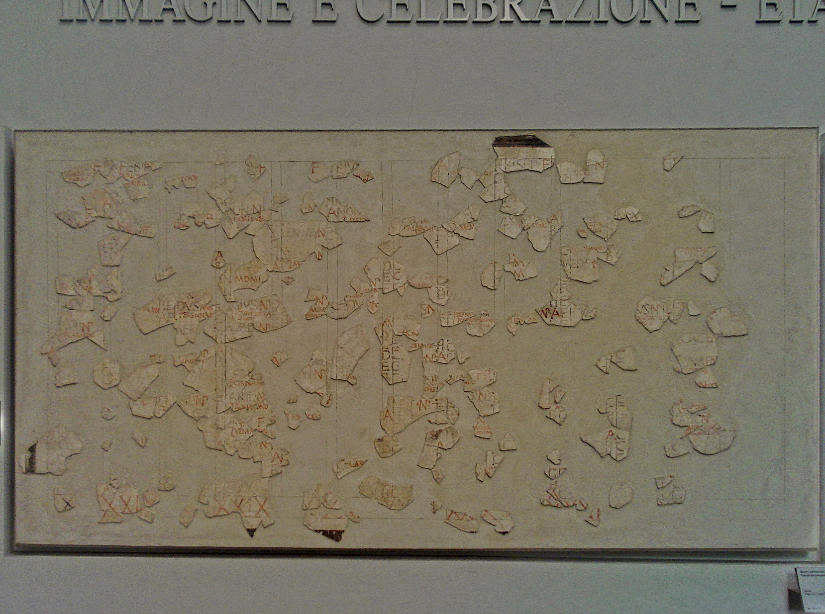 Roman calendar, found at Nero's villa in Anzio and dated 88-55 BC. It represents the traditional calendar form attributed to king Numa Pompilius, including a list of festivals and also the magistrates from 173 to 63 BC.